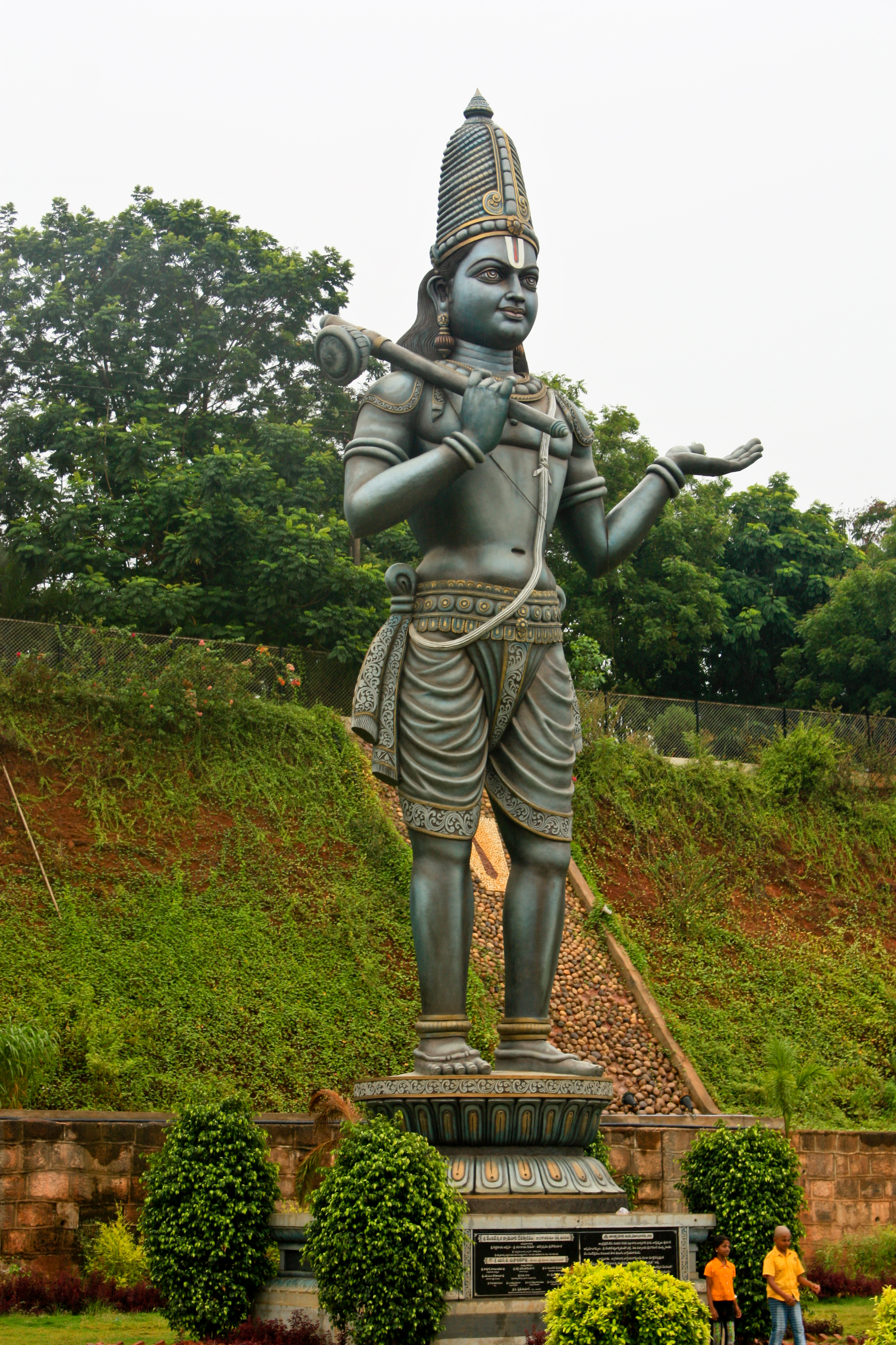 Wiki: Sri Tallapaka Annamacharya (శ్రీ తాళ్ళపాక అన్నమాచార్య) or Annamayya (May 9, 1408-February 23, 1503) was a Telugu song-writer and Carnatic composer. He is the earliest known musician in South India to compose sankeertanas. He composed numerous songs in praise of Lord Venkateswara, the deity of the Seven Hills in Tirumala. He is widely regarded as the Pada-kavita Pitaamaha (Grand old man of song-writing) of the Telugu language